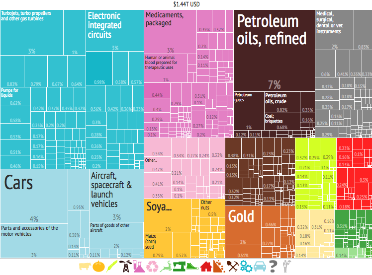 What the US exports to other countries